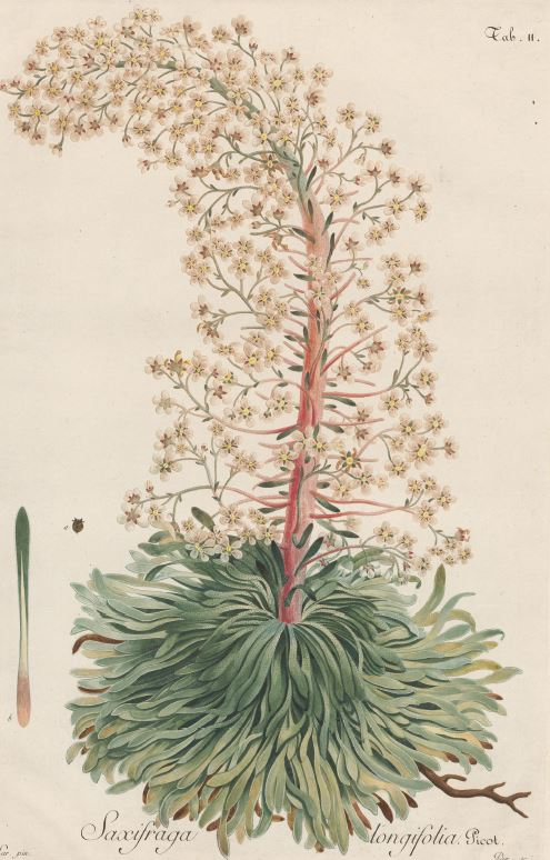 Saxifraga longifolia Lapeyrouse Fl.Pyrenees (1795)